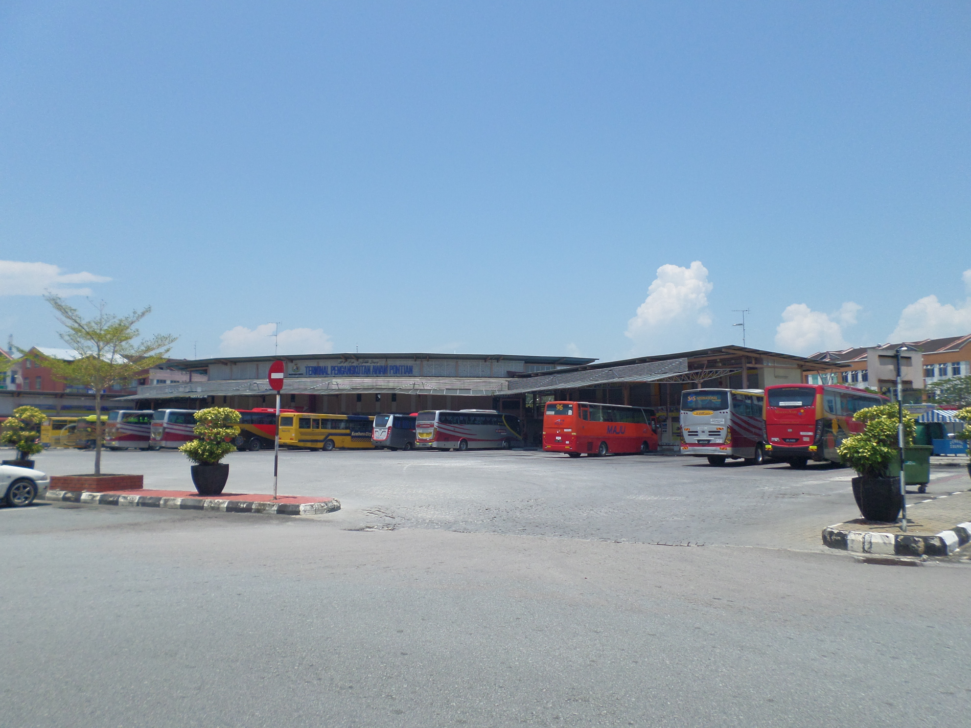 Pontian Public Transportation Terminal, Pontian Kechil, Pontian, Johor, Malaysia